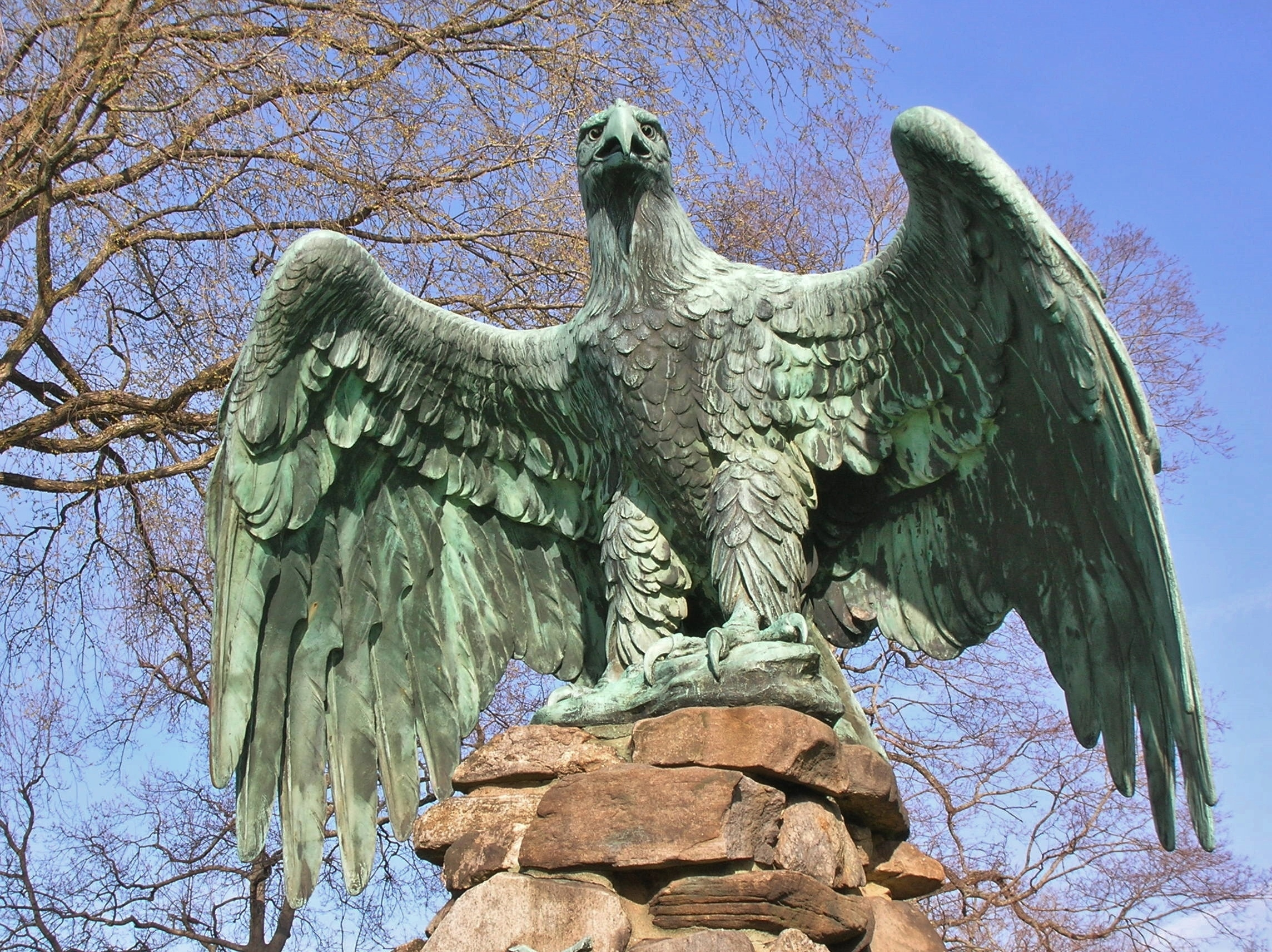 Photograph of Windsor War Memorial, bronze eagle statue sculpted by Evelyn Beatrice Longman (sculpted 1928; dedicated 1929), located on the Windsor Green, Windsor, CT.